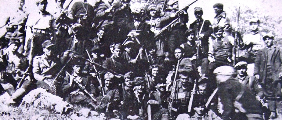 Formation of detachment "Gotse Delchev", set up in April 1943, Aegean Macedonia. This media file is produced by Wikipedian in Residence in Category:Wikipedian in Residence at DARM in 2016.